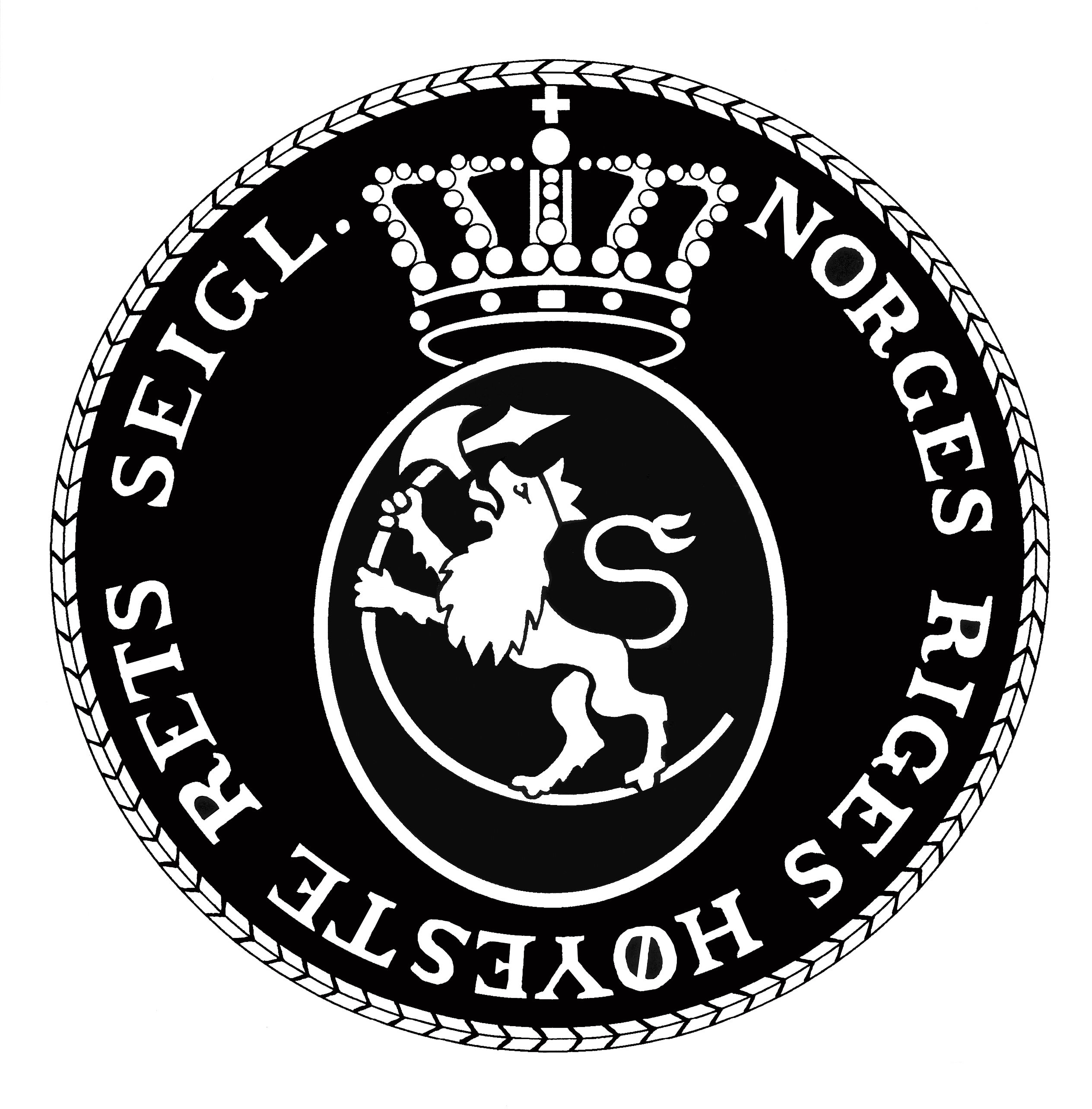 Seal of Høyesterett, the Norewegian Supreme Court, established 1815. Present design by Lars Roede 1994.